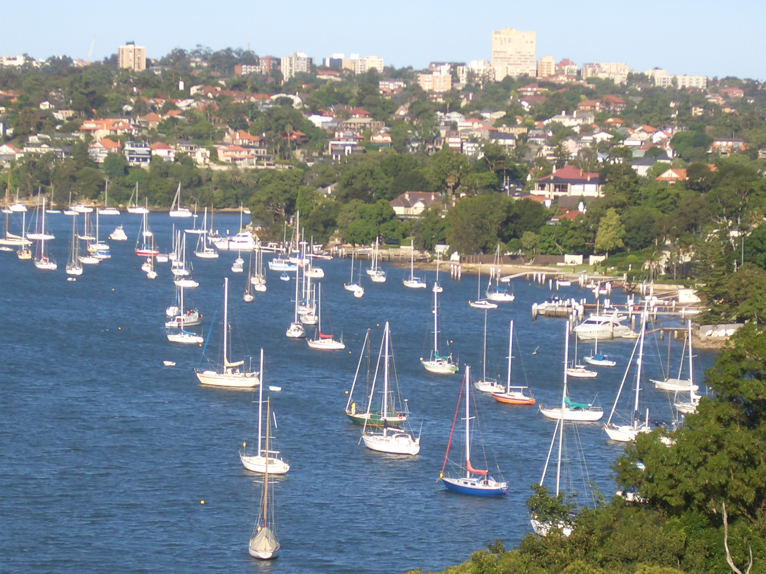 Hunters Hill, Mornington Reserve